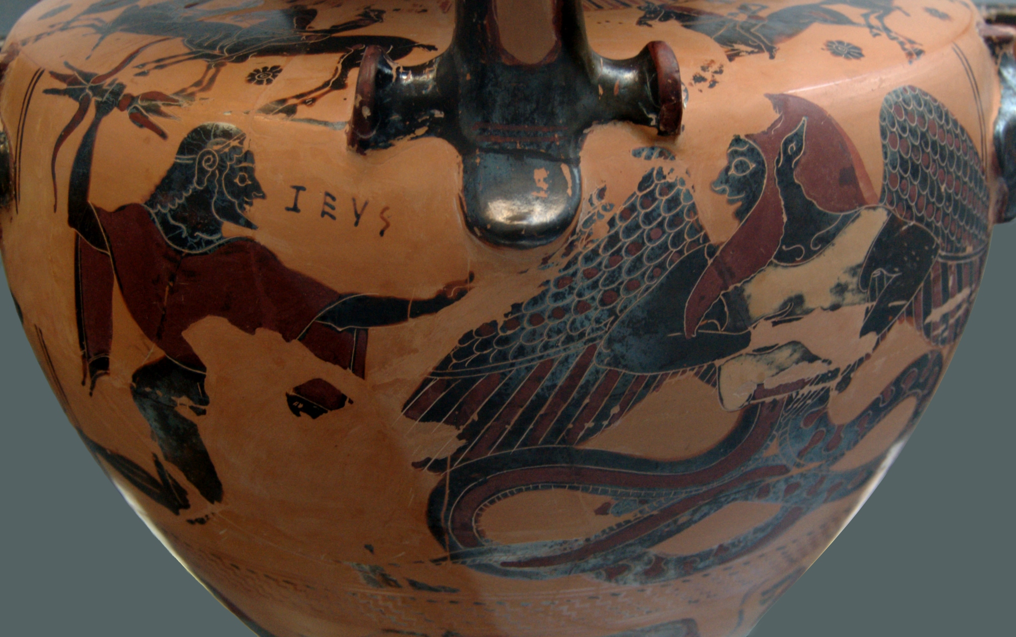 Chalcidian black-figured hydria. Side A: wrestling of Peleus and Atalanta for the funerary games of king Pelias. In background, the prize of the duel: the skin and the head of the Calydonian boar. Side B: Zeus darting its lightning on Typhon. Names inscriptions are written in the alphabet of Chalcis in Euboea. Side B